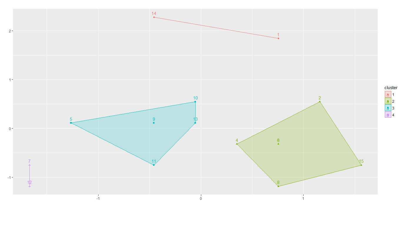 cluster 4 groups